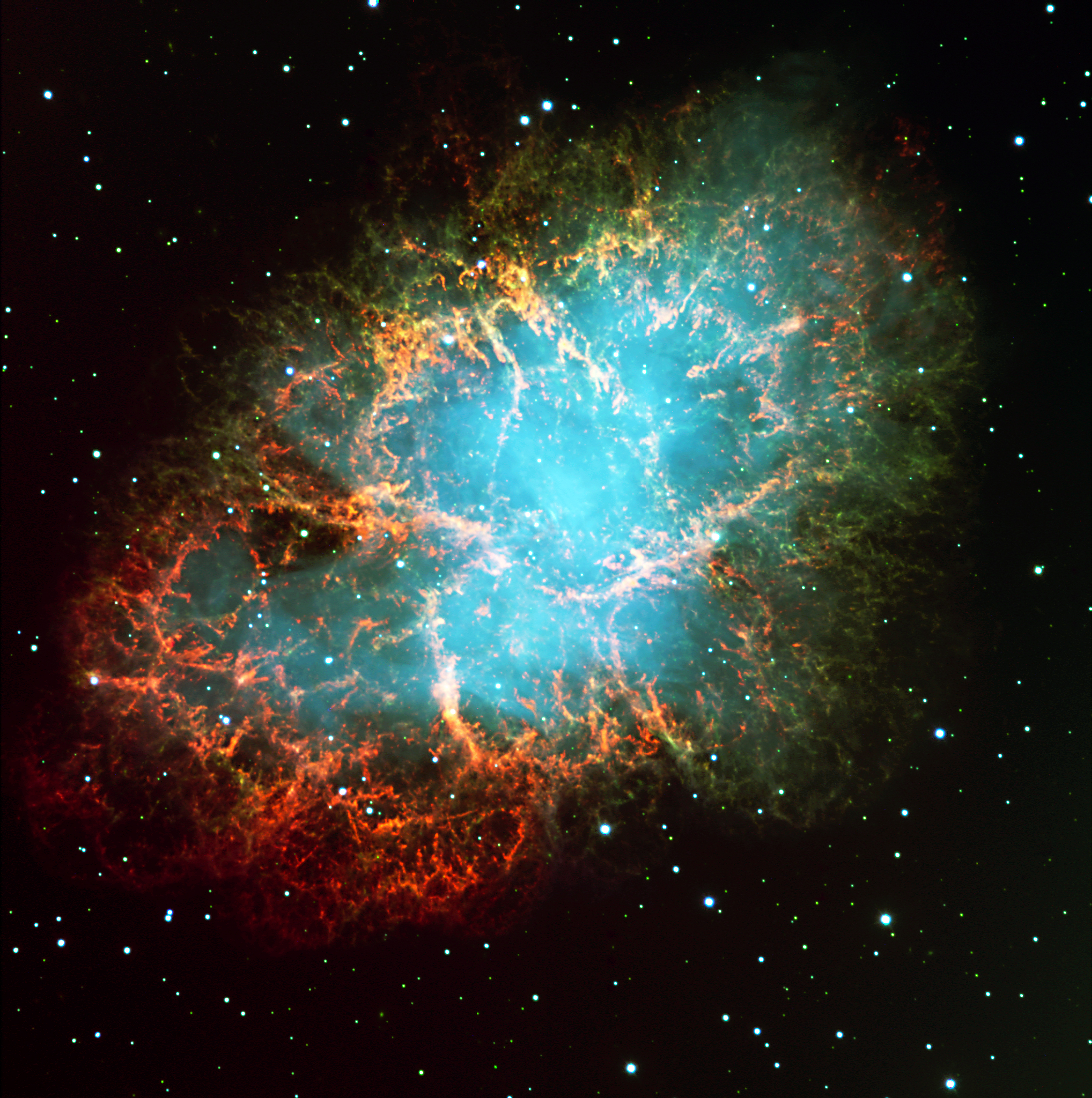 This photo shows a three colour composite of the well-known Crab Nebula (also known as Messier 1), as observed with the FORS2 instrument in imaging mode in the morning of November 10, 1999. It is the remnant of a supernova explosion at a distance of about 6,000 light-years, observed almost 1,000 years ago, in the year 1054. It contains a neutron star near its center that spins 30 times per second around its axis (see below). In this picture, the green light is predominantly produced by hydrogen emission from material ejected by the star that exploded. The blue light is predominantly emitted by very high-energy ("relativistic") electrons that spiral in a large-scale magnetic field (so-called syncrotron emission). It is believed that these electrons are continuously accelerated and ejected by the rapidly spinning neutron star at the centre of the nebula and which is the remnant core of the exploded star. This pulsar has been identified with the lower/right of the two close stars near the geometric center of the nebula, immediately left of the small arc-like feature, best seen in ESO Press Photo eso9948 .Technical information : ESO Press Photo eso9948 is based on a composite of three images taken through three different optical filters: B (429 nm; FWHM 88 nm; 5 min; here rendered as blue), R (657 nm; FWHM 150 nm; 1 min; green) and S II (673 nm; FWHM 6 nm; 5 min; red) during periods of 0.65 arcsec (R, S II) and 0.80 (B) seeing, respectively. The field shown measures 6.8 x 6.8 arcmin and the images were recorded in frames of 2048 x 2048 pixels, each measuring 0.2 arcsec. The Full Resolution version shows the original pixels. North is up; East is left.